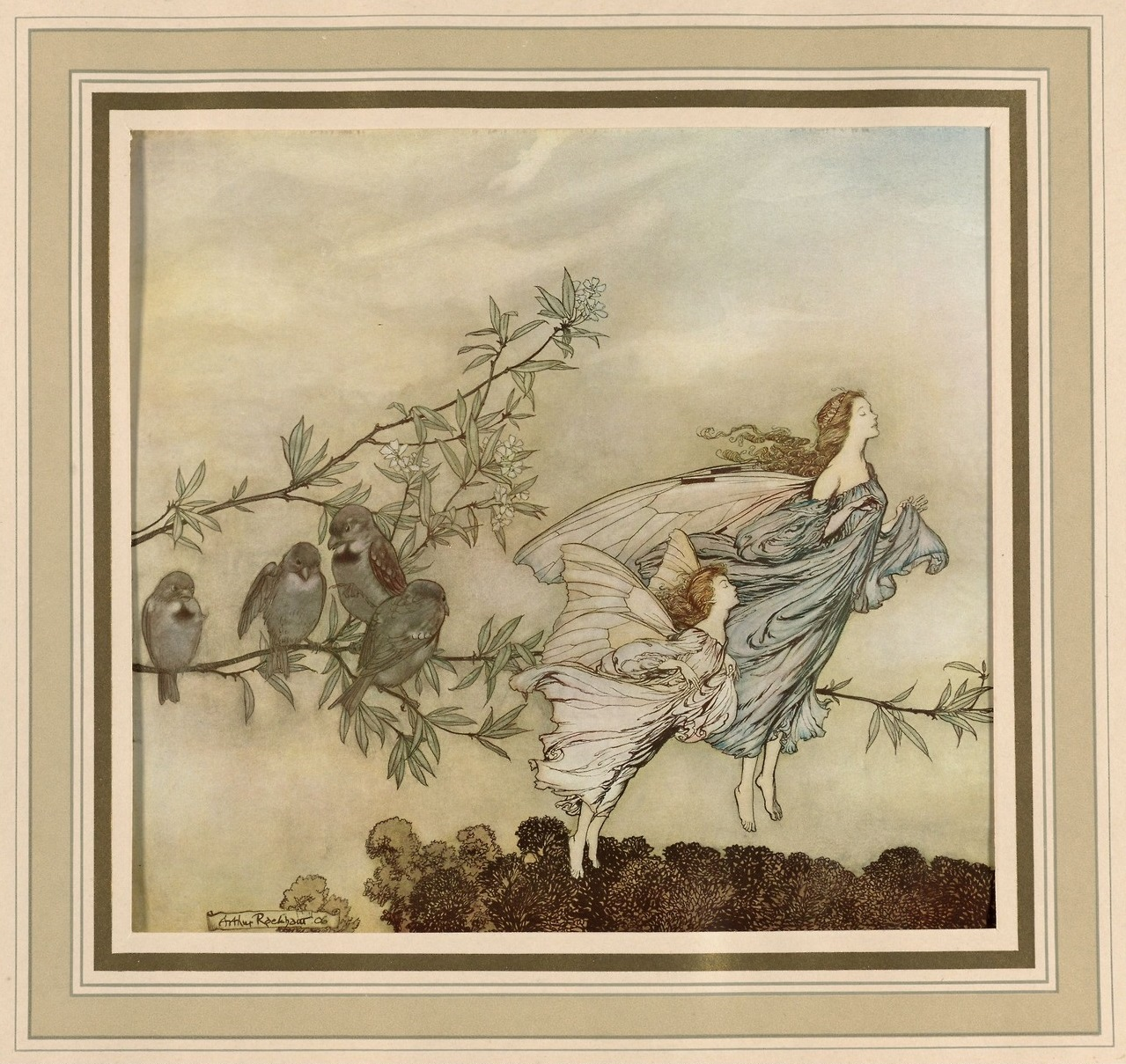 Arthur Rackham (1867-1939) illustration of "Peter Pan in Kensington Gardens", a story by J. M. Barrie. From The Peter Pan portfolio, 1912 (signature on image dated 1906). Typ 905.12.7265, Houghton Library, Harvard University